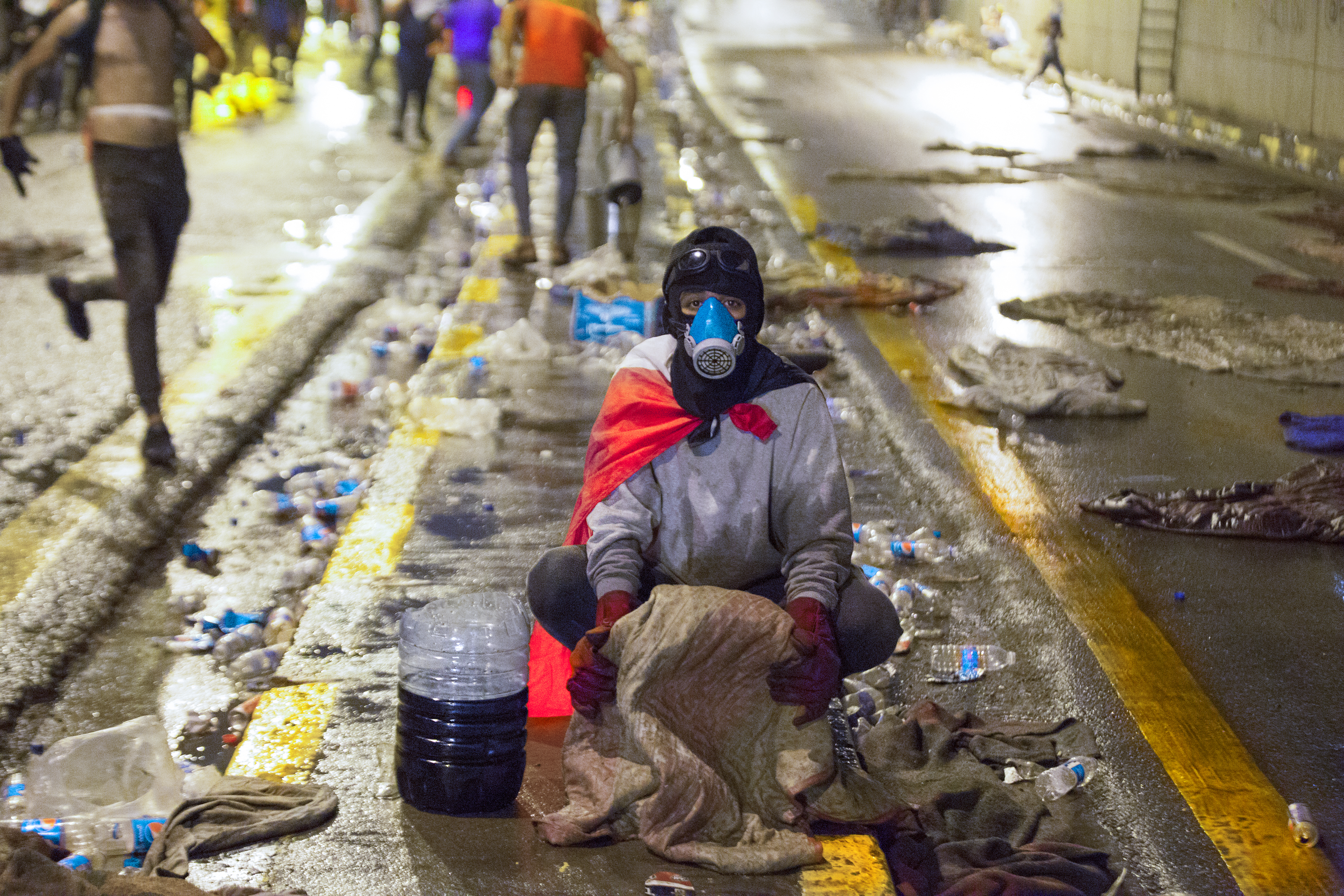 A demonstrator from the anti-smoke team hunted tear grenades to extinguish them away from the demonstrators